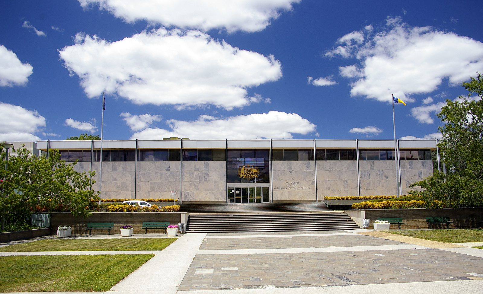 Law Courts of the Australian Capital Territory building which houses the Supreme Court of the Australian Capital Territory located on London Circuit in Canberra, Australian Capital Territory.